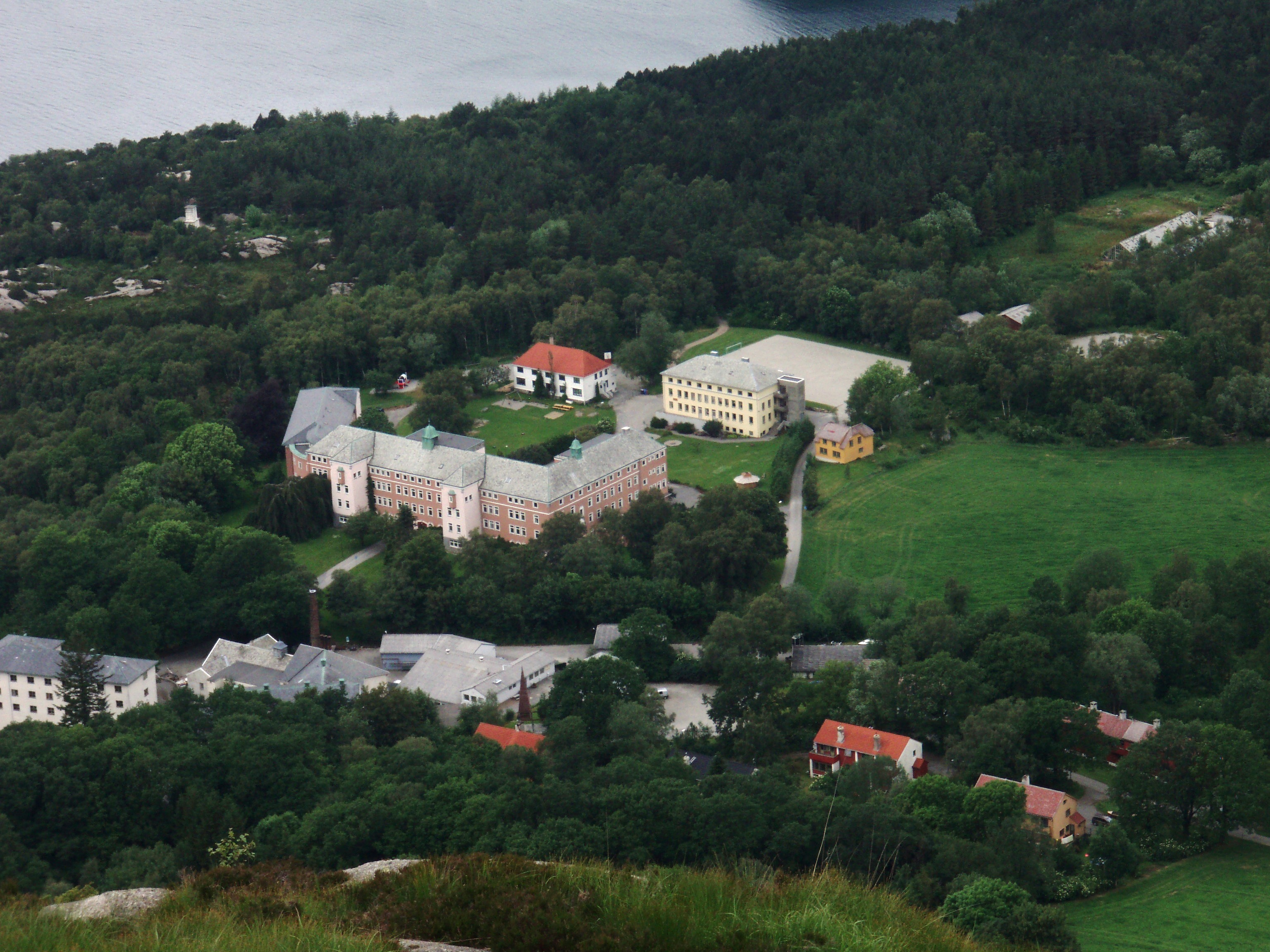 Dale Hospital (Sandnes, Rogaland, Norway) photographed from Dalsnuten, July 2007)